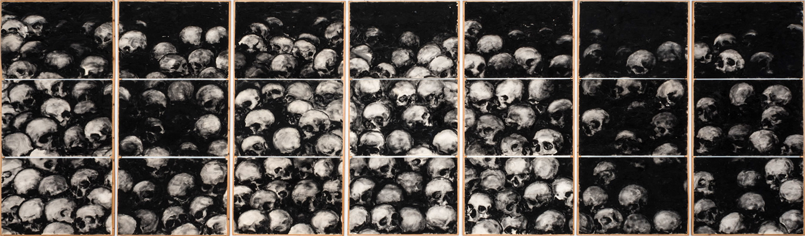 Josef Hnízdil, Grave in Carmel, 1994